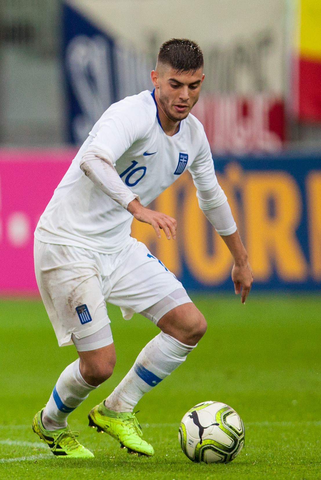 Antonín Vaníček & Giannis Bouzoukis in an internatinoal association football match of European Under-21 Championship Qualifying Round between the Czech Republic and Greece, Městský stadion Karviná, Karviná District, Moravian-Silesian Region, Czechia Personality rights warningAlthough this work is freely licensed or in the public domain, the person(s) shown may have rights that legally restrict certain re-uses unless those depicted consent to such uses. In these cases, a model release or other evidence of consent could protect you from infringement claims.